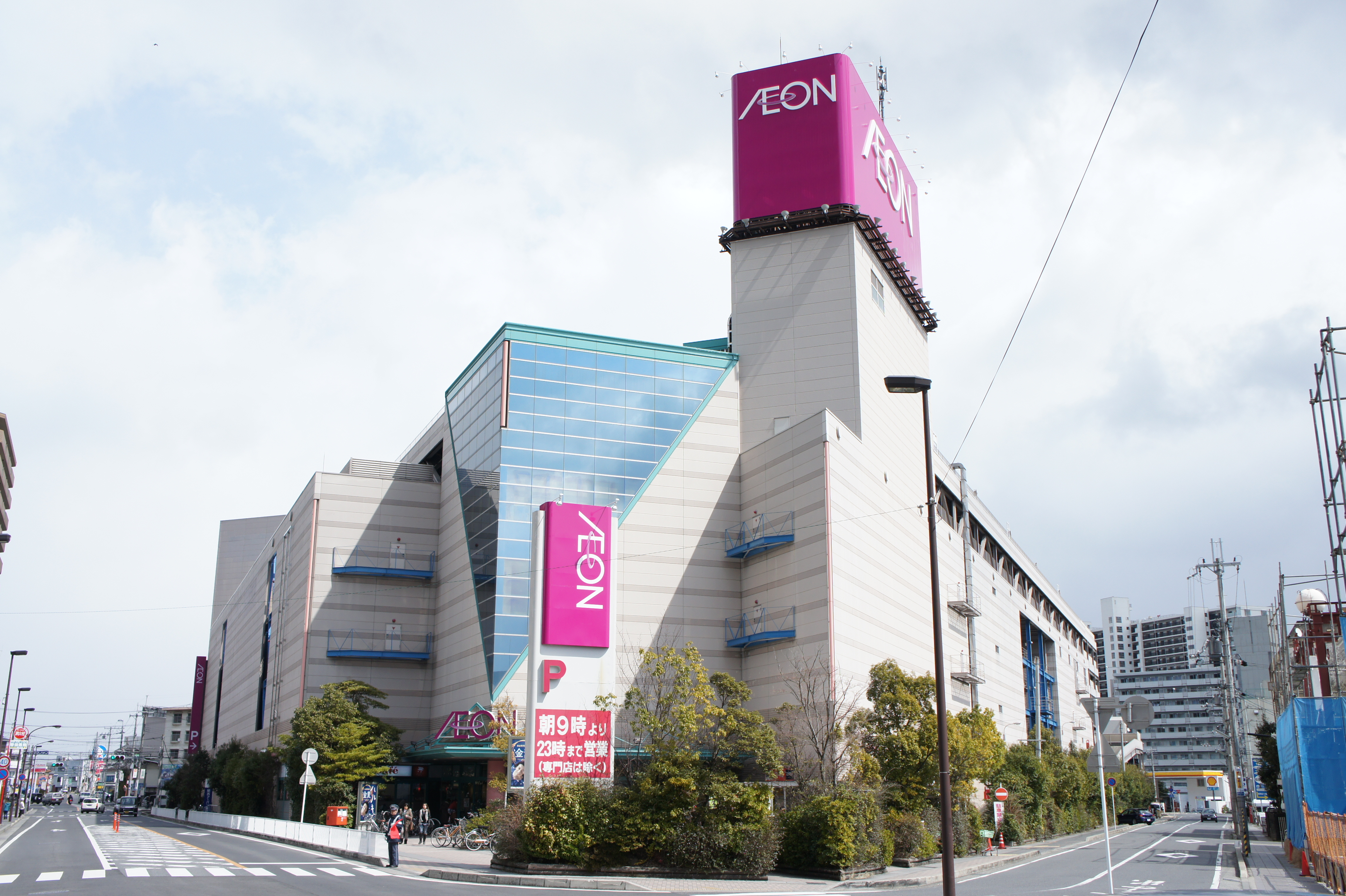 AEON Nishi-Otsu,Ojigaoka Ostu-City Shiga Japan.